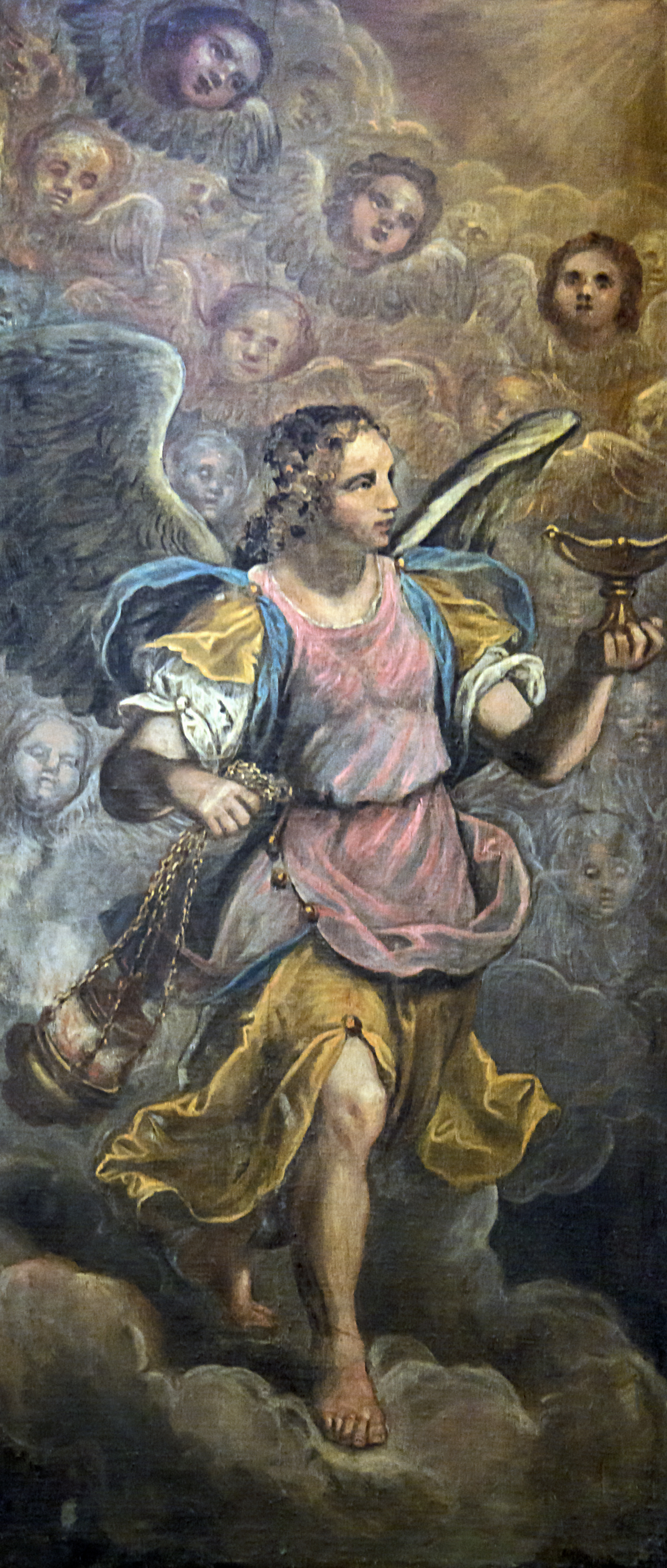 Madonna dell'Orto, Venice Interior, the Chapel Morosini. Angel carrying the censer (left) by Tintoretto, oil in canvas (ca 1627).